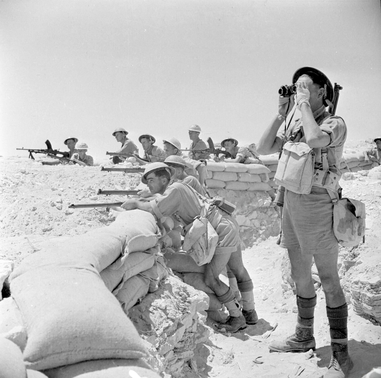 IWM caption : THE BRITISH ARMY IN NORTH AFRICA 1942. Infantry manning a sandbagged defensive position near El Alamein.